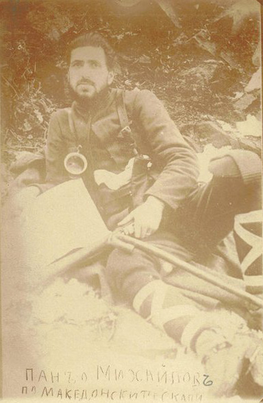 Portrait of bulgarian revolutionary from IMRO Pancho Mihaylov